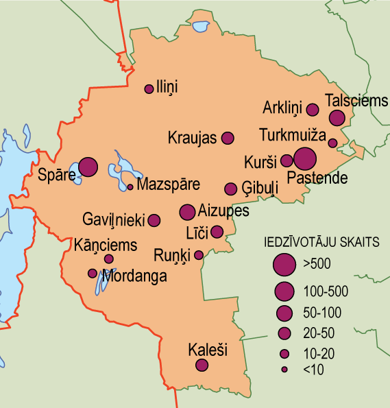 Villages in Ģibuļi parish